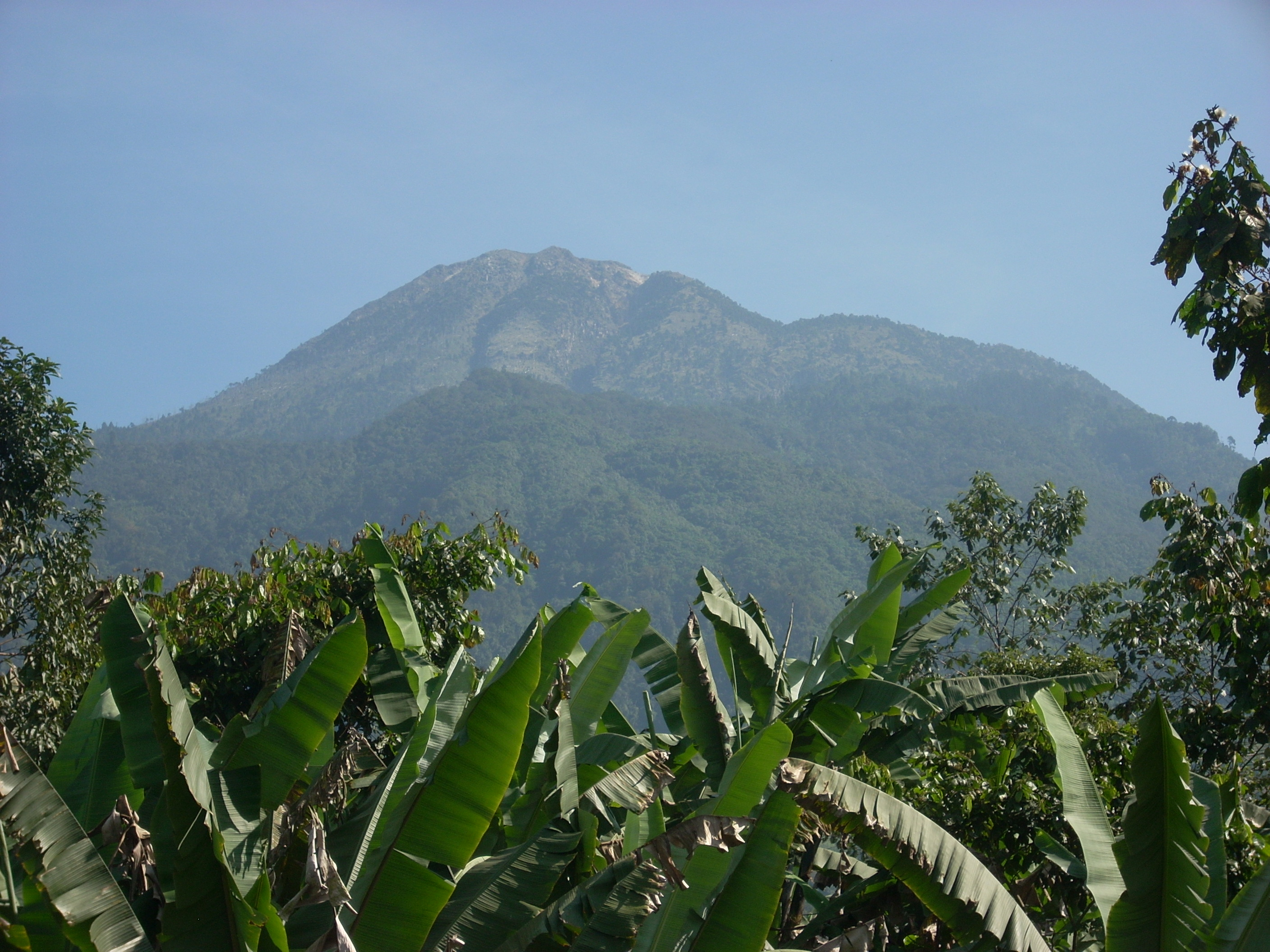 Tajumulco volcano from La Igualdad, San Marcos, Guatemala.